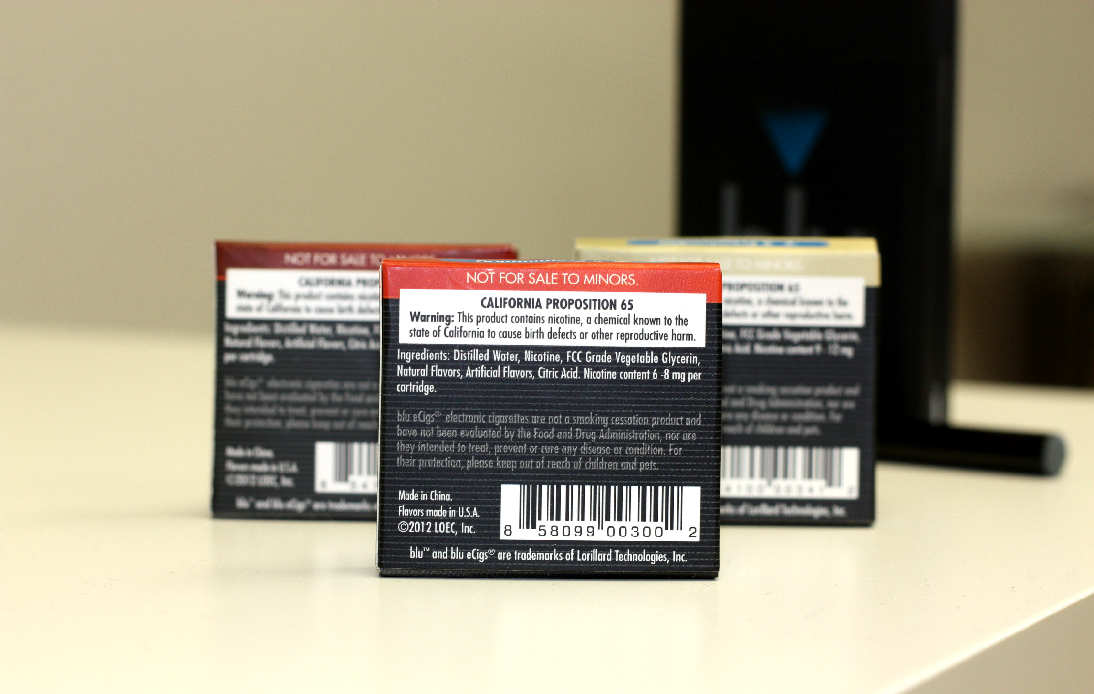 Cartridge ingredients of Blu Cigs electronic cigarette.